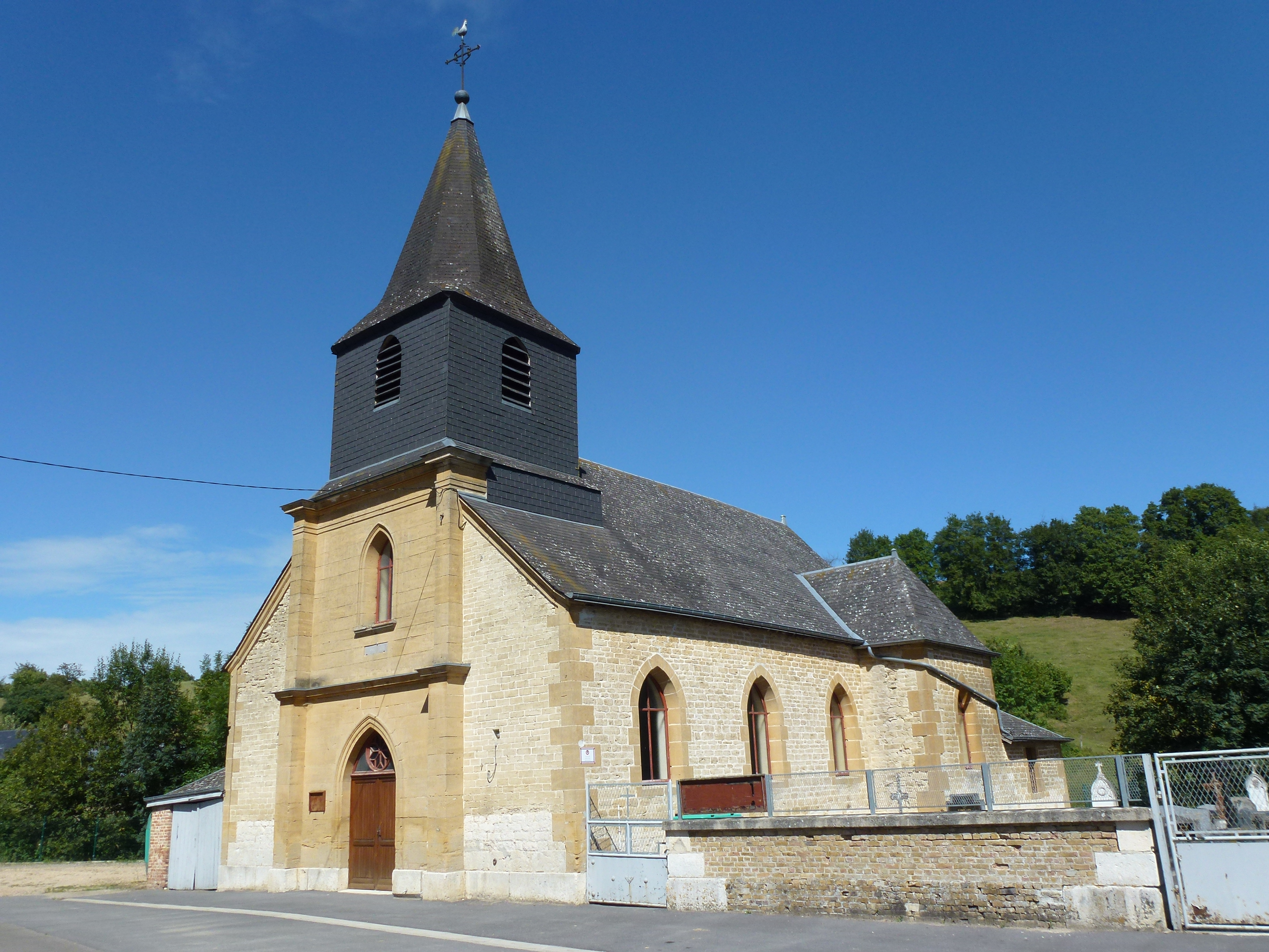 Wignicourt (Ardennes) église